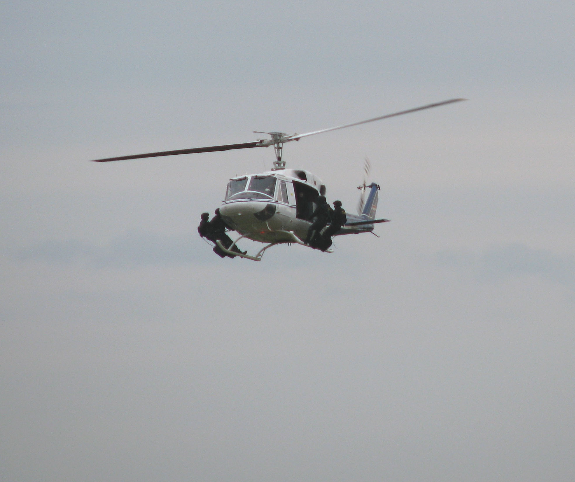 Croatian Police Agusta AB-212 with ATJ Lucko members